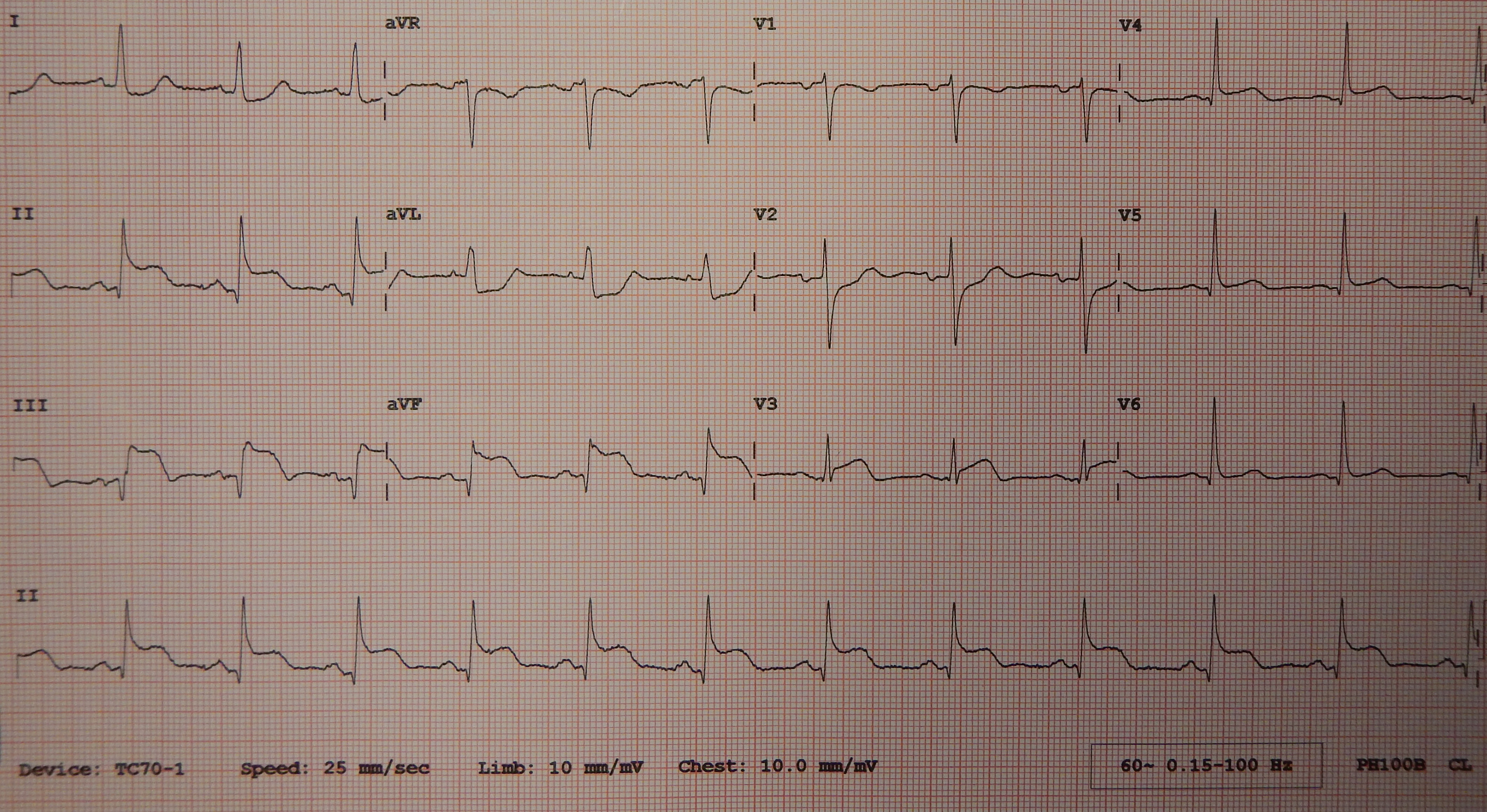 12 lead ECG showing inferior and right ventricular infarct